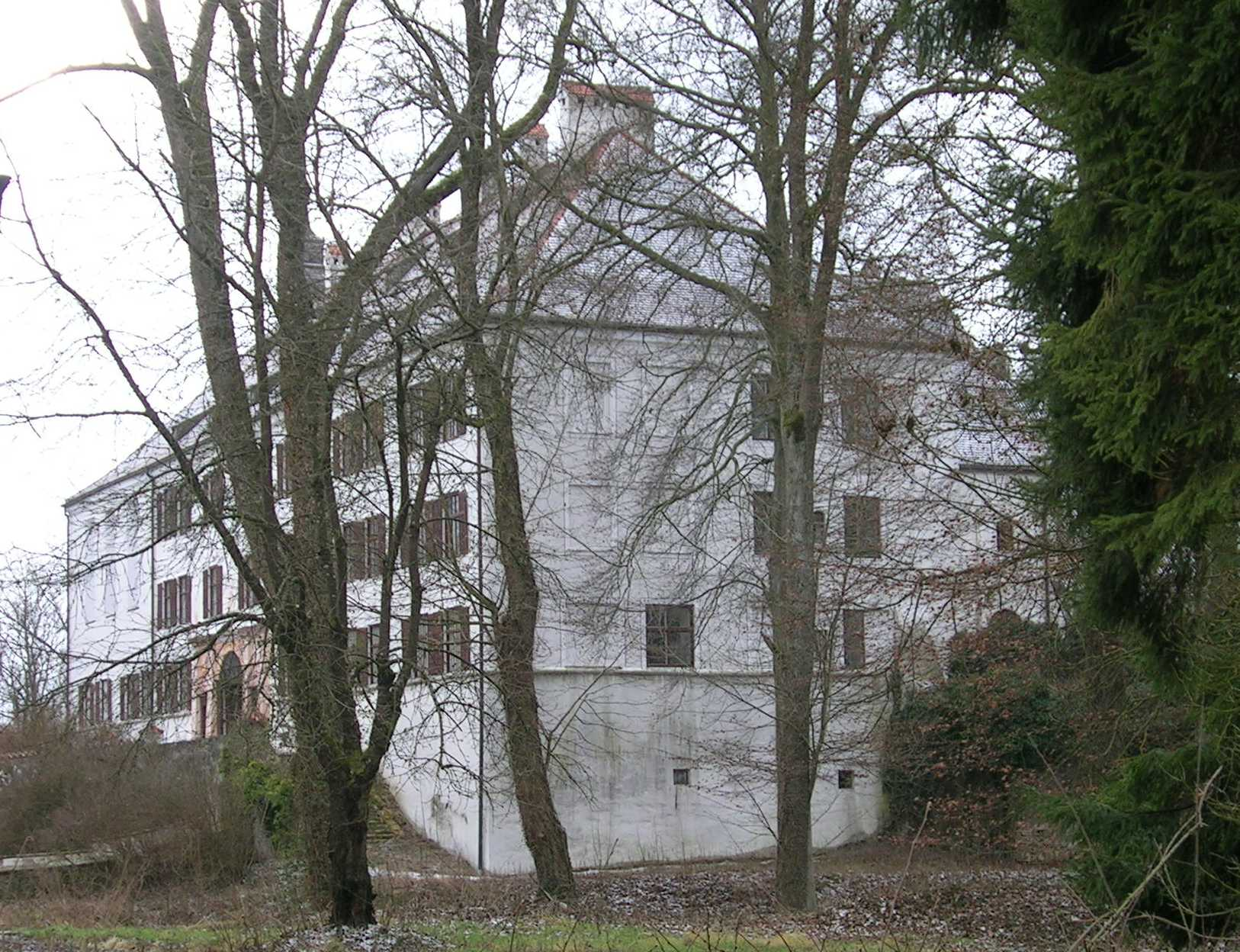 Castle Isareck, Wang (Oberbayern)